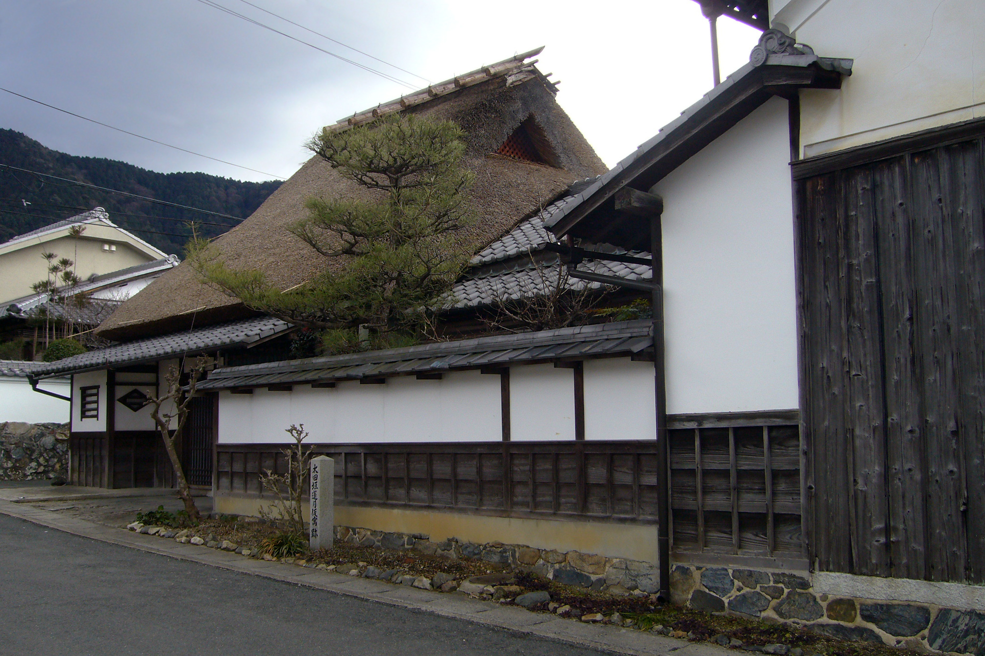 Otagaki Rengetsu Kagu-ato in Kyoto, Kyoto prefecture, Japan